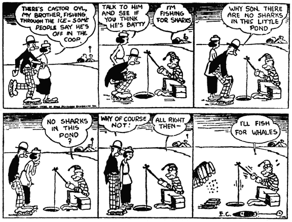 E.C. Segar's The Thimble Theater, published 1920.